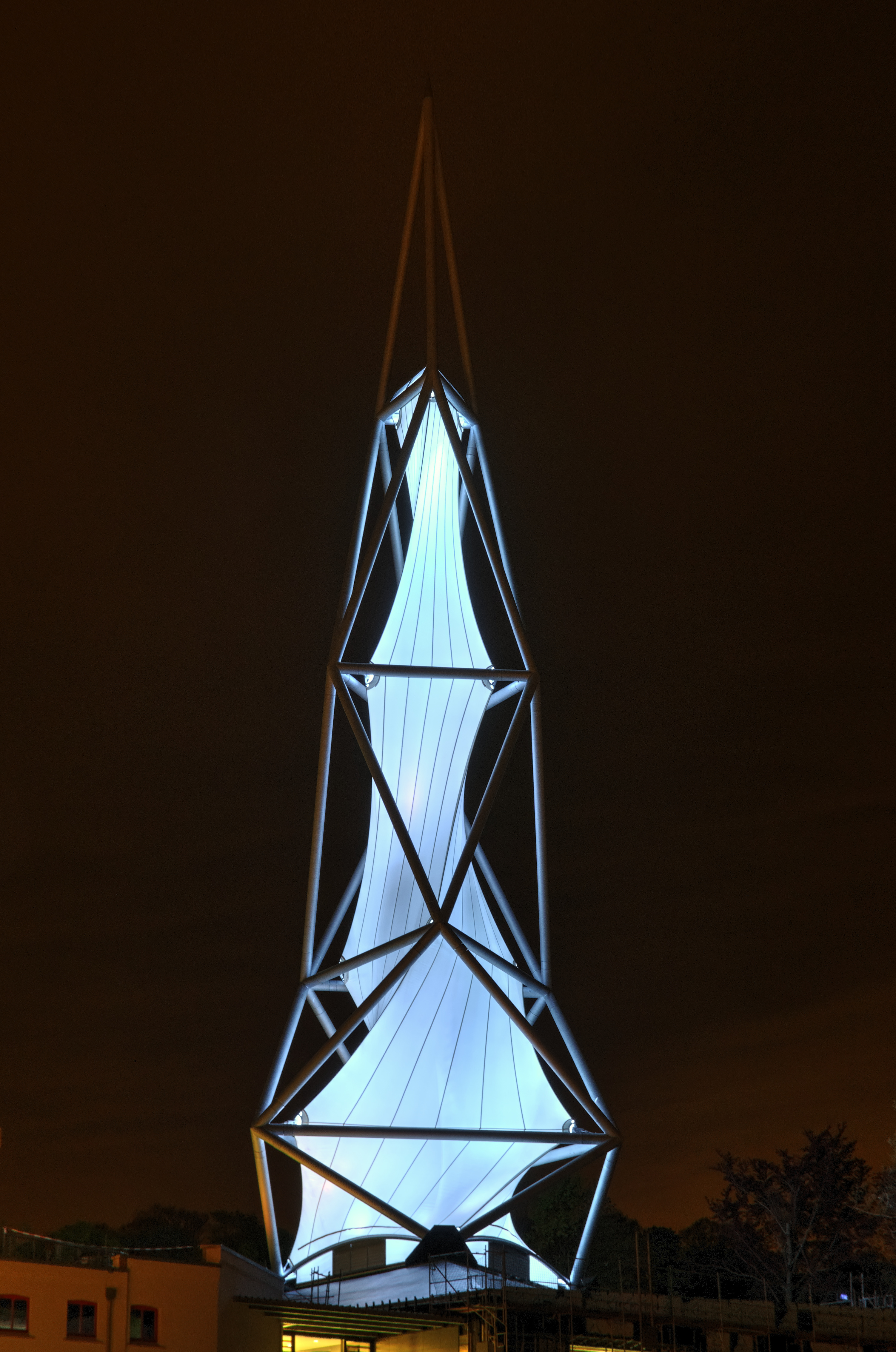 Tower of the “Phänomenta” in Lüdenscheid, Germany.